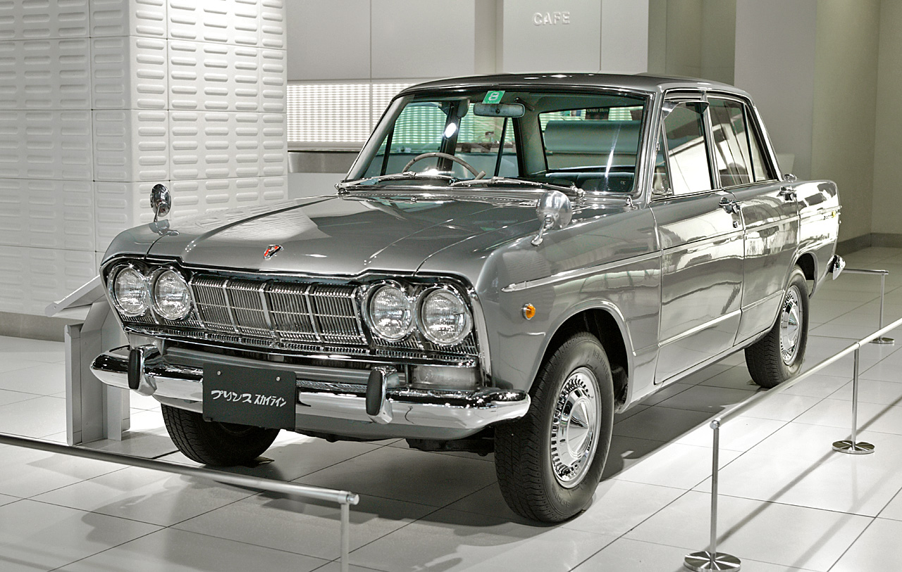 Prince Skyline xe